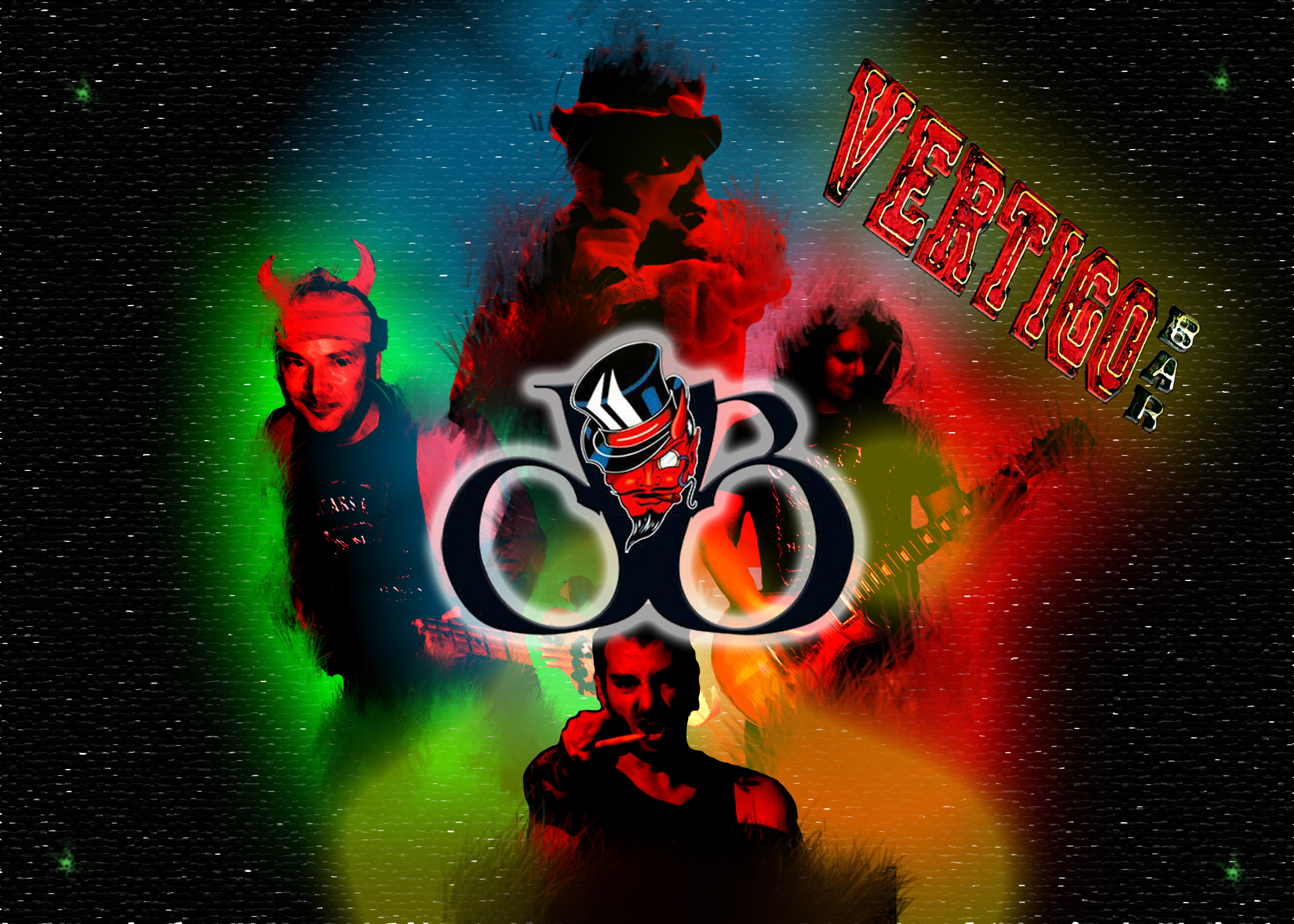 Diéb Band is one of most renowned bands of the Algarve